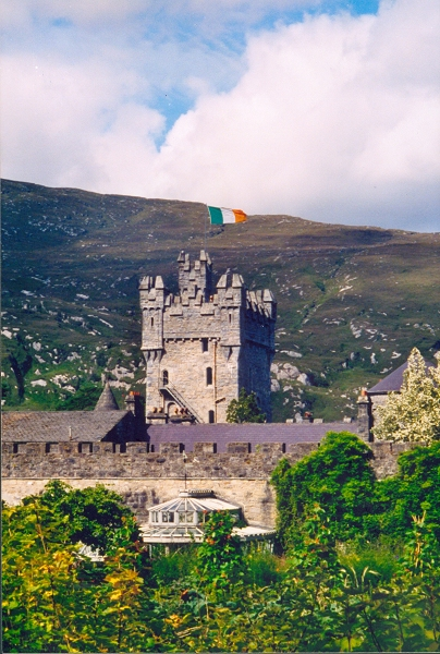 Gleann Bheatha. When the estate was established in the 19th Century, the owner evicted hundreds of tenants and cleared the land so as not to mar his view of the magnificent landscape! The Park now has one of the largest herds of Red Deer in Europe and the Golden Eagle has been recently re-introduced